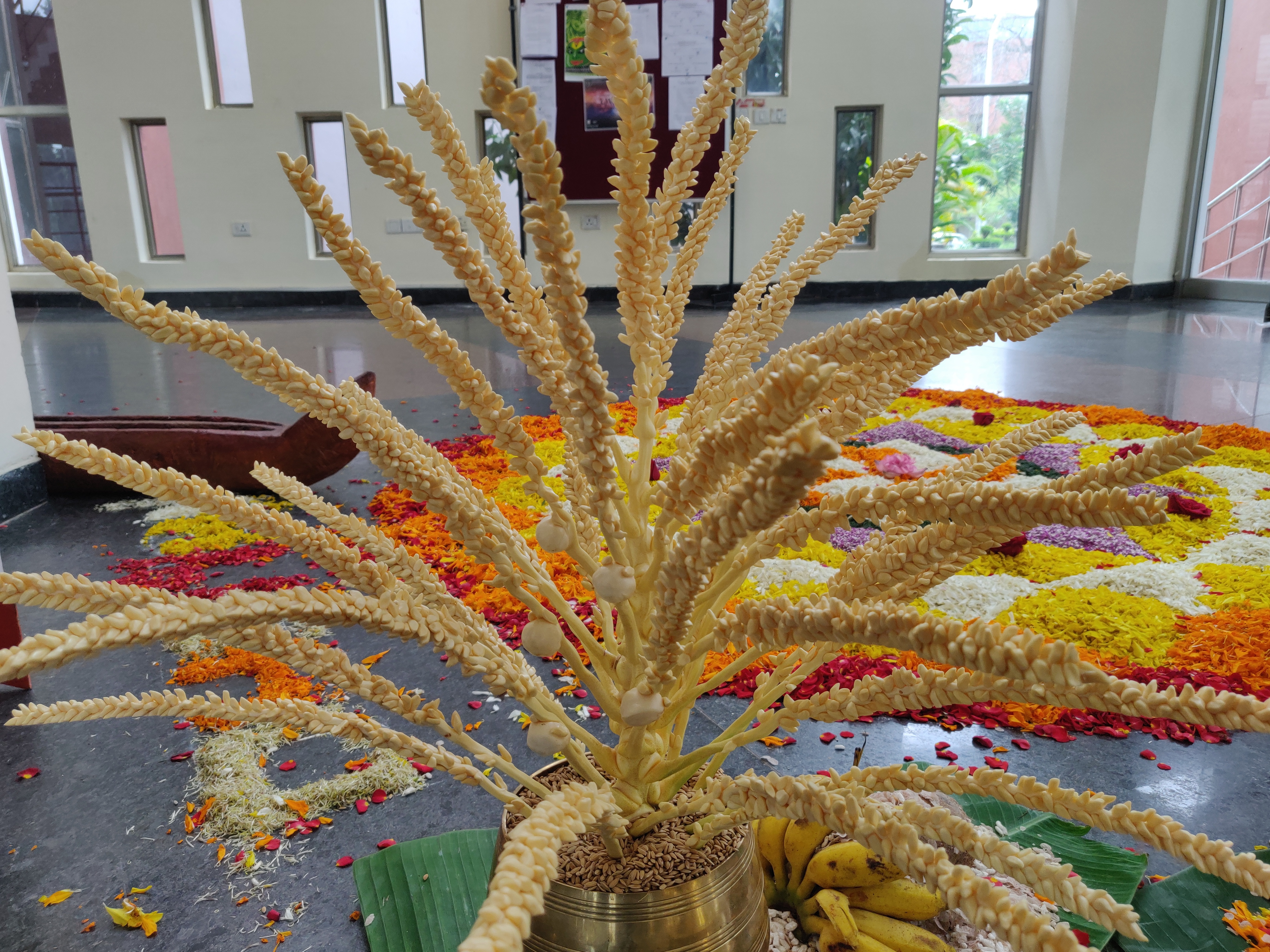 Onam is celebrated in Kerala. Pookalam is an integral part of this festival. The most popular legend connected with Onam is that it is welcome for the mythical King Mahabali and this is when he comes from pathalom (or the netherworld). And of course, people welcome their king with flowers or pookalam. This photo has been taken in the country: India